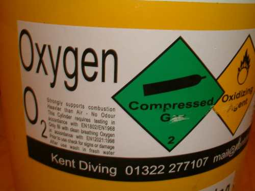 Mark.murphy 21:59, 18 March 2007 (UTC)